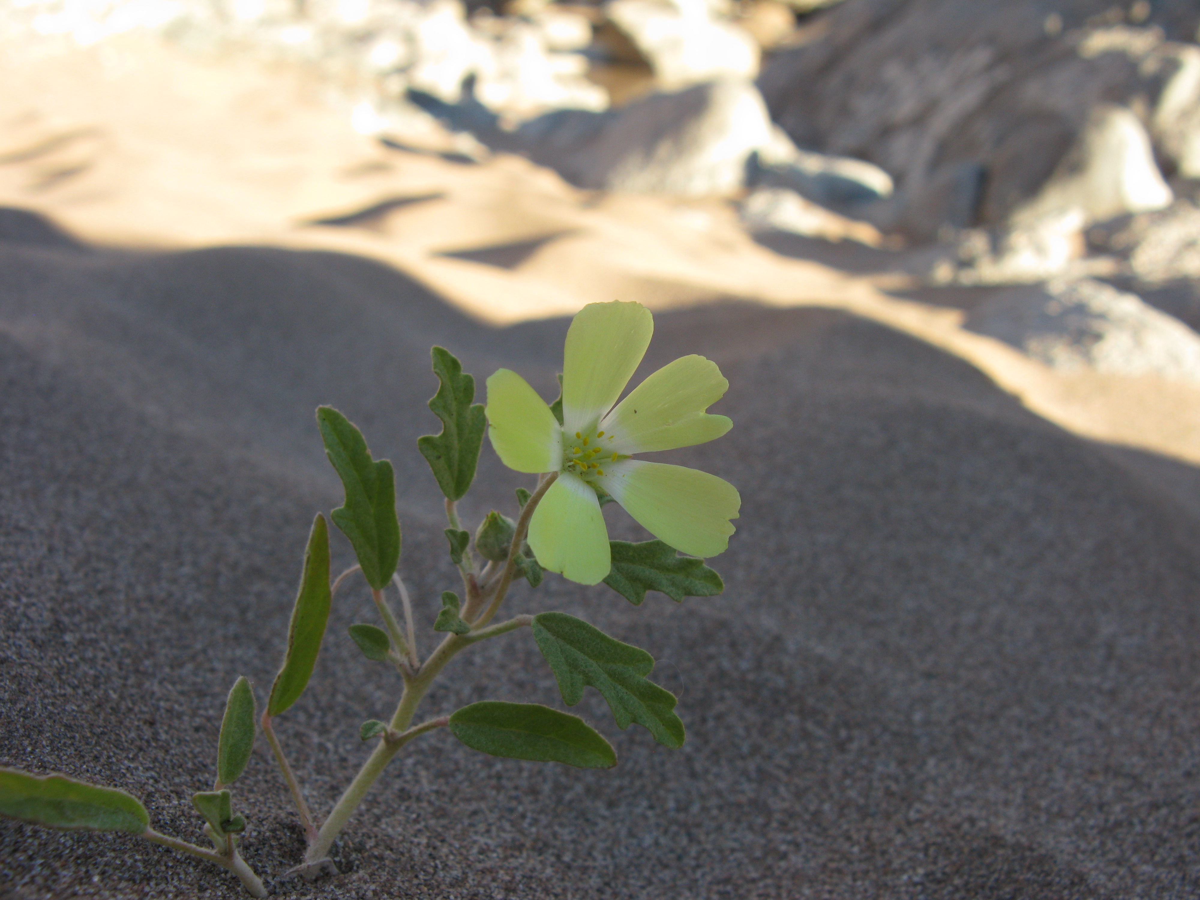 Grielum humifusum Thunb.Growing in a sandbank beside the Fish River in Namibia. Common name Piet Snot or Maritzwater.